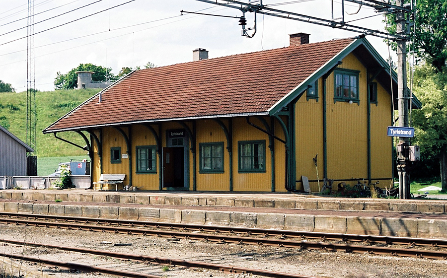 Tyristrand stasjon, Randsfjordbanen. Built 1867. Architect: Georg Andreas Bull.